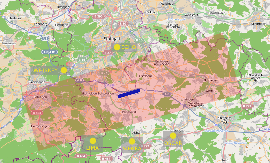 Control zone of Stuttgart Airport, Germany